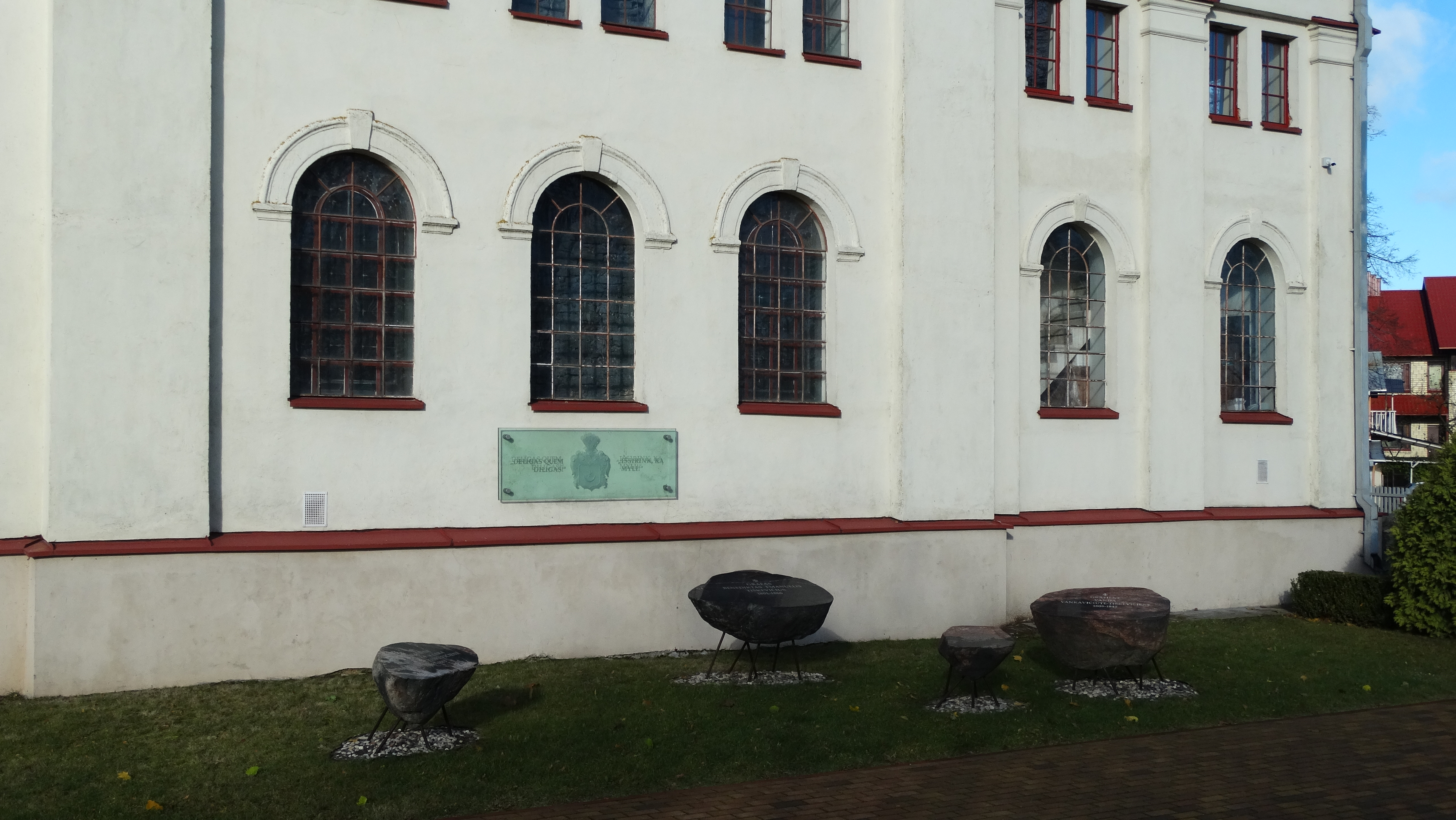 Memorial stones in the churchyard, Raudondvaris, Lithuania